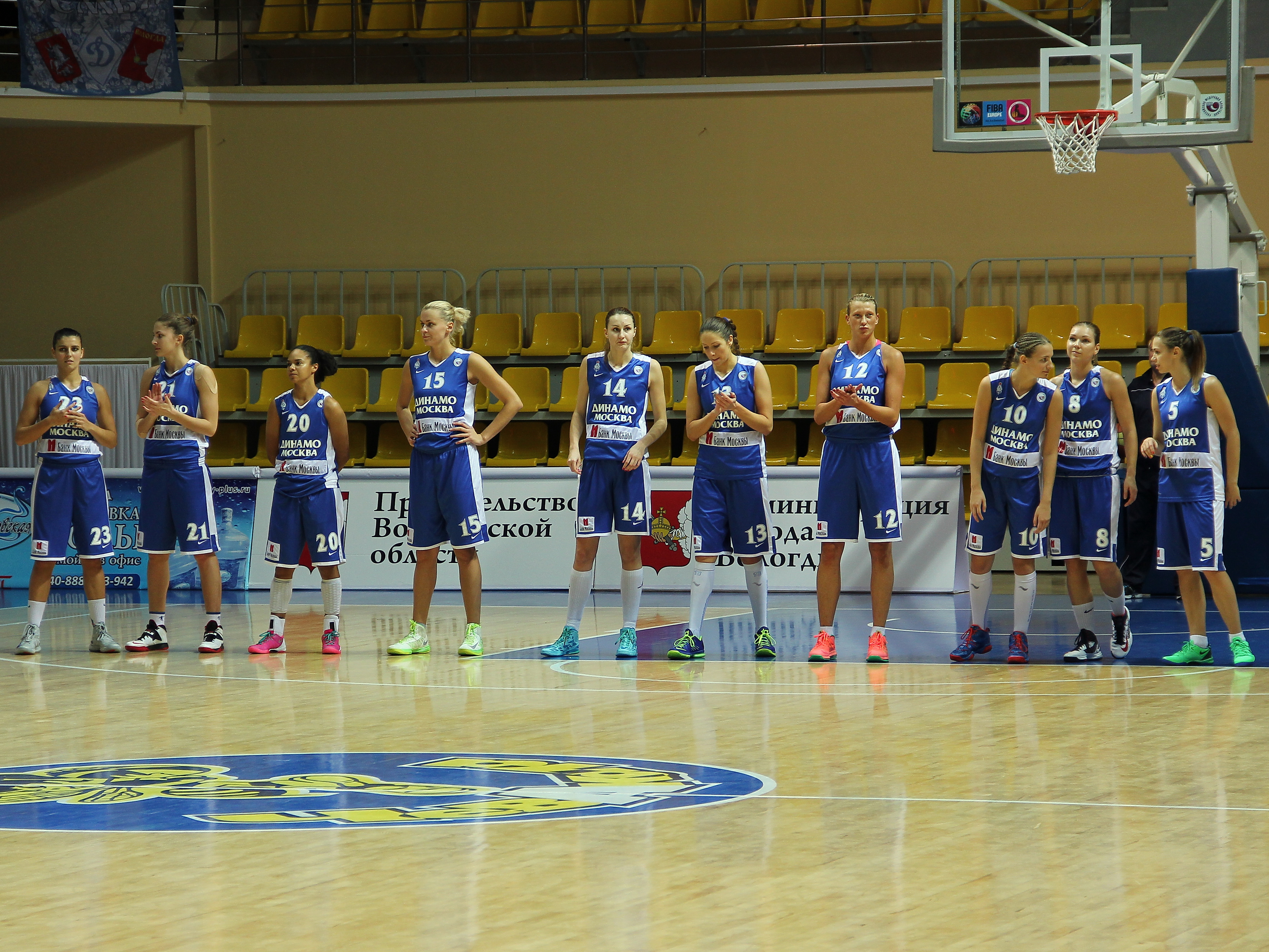 Russia, Women's basketball club «Dynamo» (Moscow)